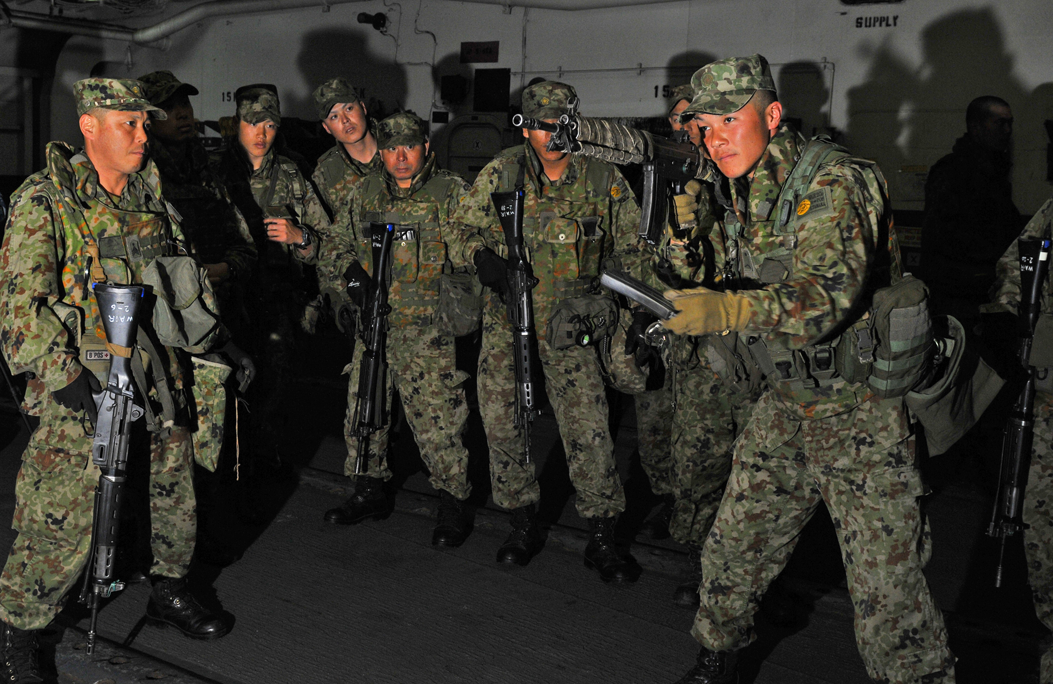 PACIFIC OCEAN (Feb. 8, 2012) Members of the Japan Ground Self-Defense Force conduct small arms weapons training aboard the amphibious assault ship USS Peleliu (LHA 5). Peleliu is participating in exercise Iron Fist 2012. Iron Fist is a training exercise between U.S. Marines and the Japanese Ground Self-Defense Force designed to increase interoperability and amphibious capabilities throughout U.S. 3rd and 7th Fleet areas of responsibility. (U.S. Navy photo by Mass Communication Specialist 2nd Class Michael Russell/Released)